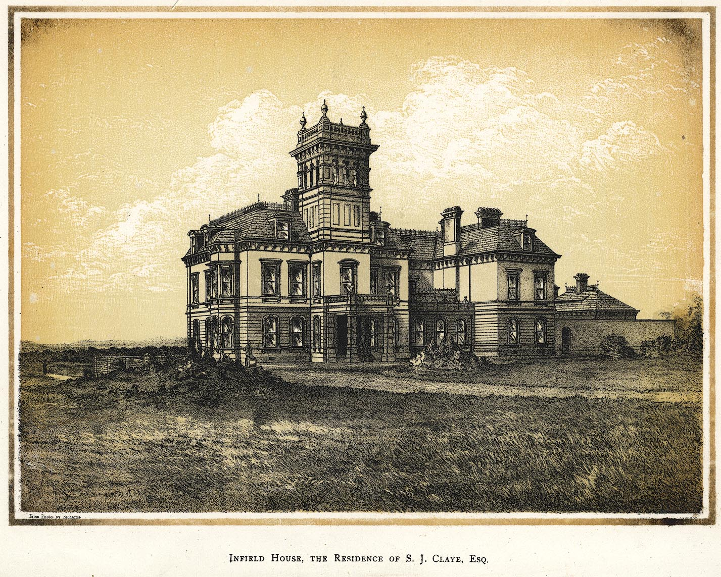 The former Infield House at Abbey Road, Barrow-in-Furness, England